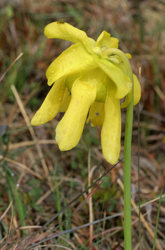 Yellow Pitcher Plant, Sarracenia flava, flower. Location: Holly Shelter Game Lands, Pender County, North Carolina, United States